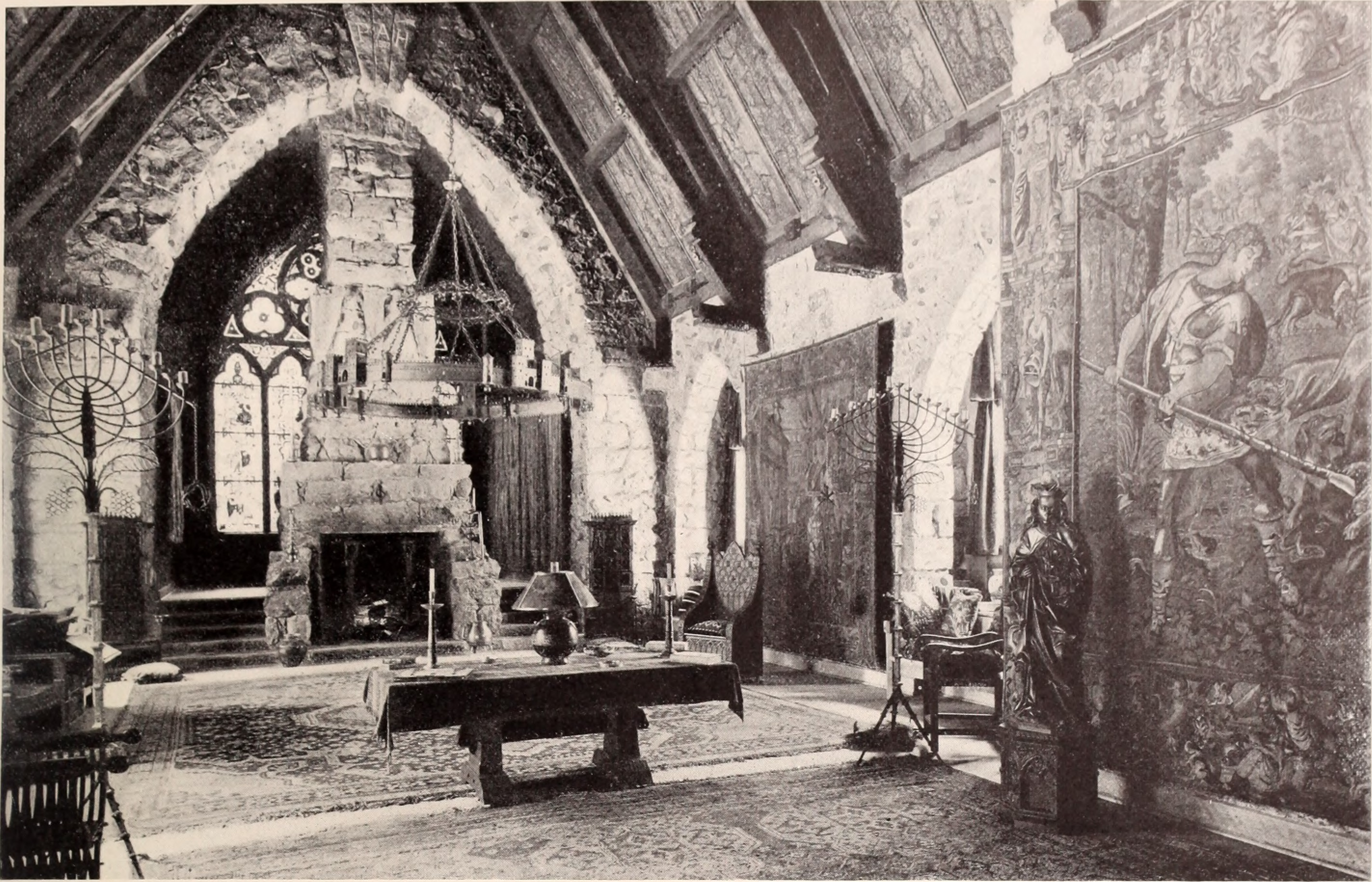 Title: American homes and gardens Year: 1905 (1900s) Authors: Subjects: Architecture, Domestic; Landscape gardening Publisher: New York, Munn and Co Text Appearing Before Image: February, 1906 AMERICAN HOMES AND GARDENS 101 Text Appearing After Image: The Great Living-Room, Eighty Feet Long and Thirty-Six Feet Wide, is Illuminated at One End by a Stained Glass Window of Thirteenth Century Design. The Room takes the Place of a Mediaeval Chapel; the Place of the Altar is Occupied by a Fireplace